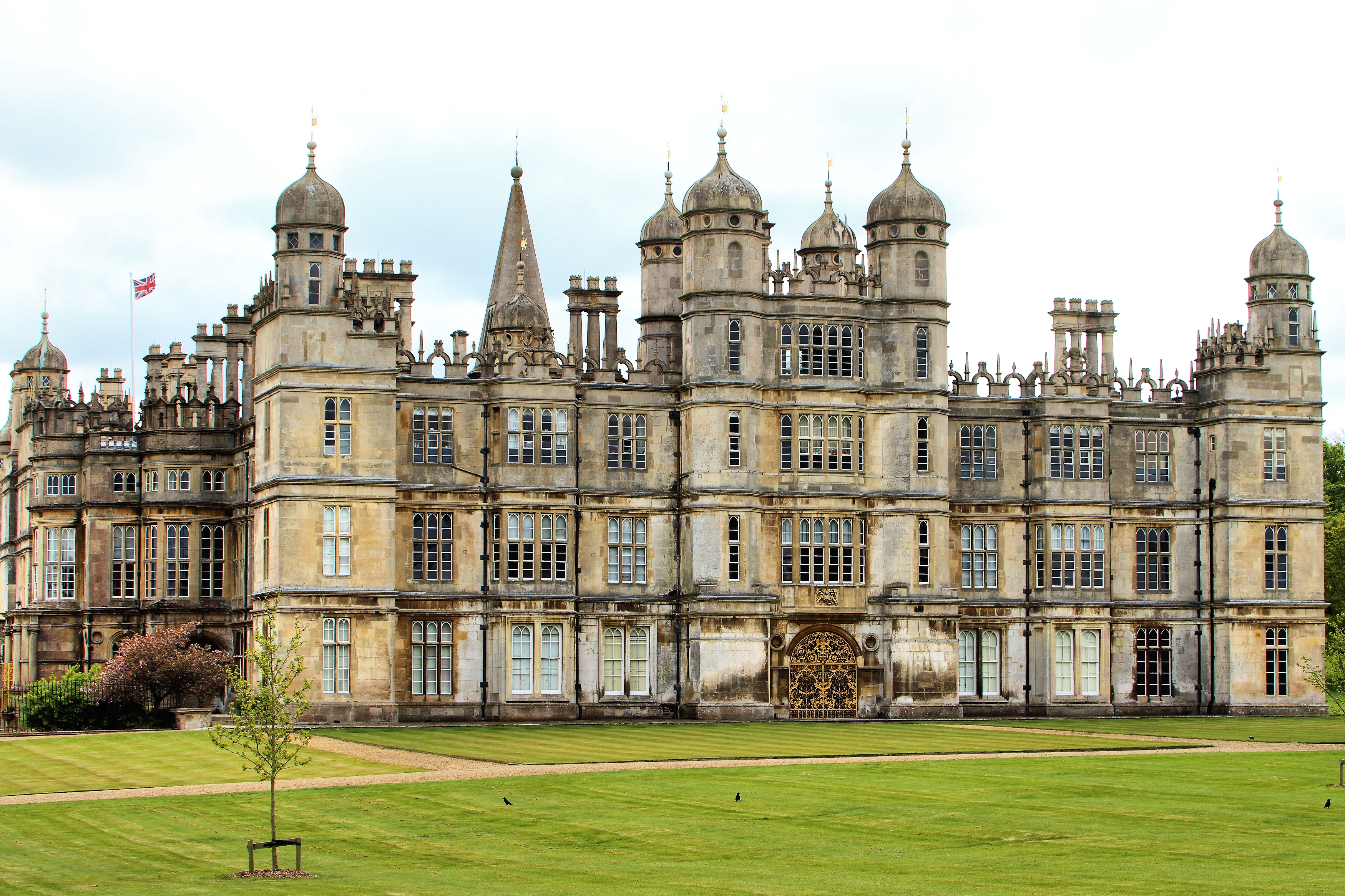 Burghley House - Lincolnshire